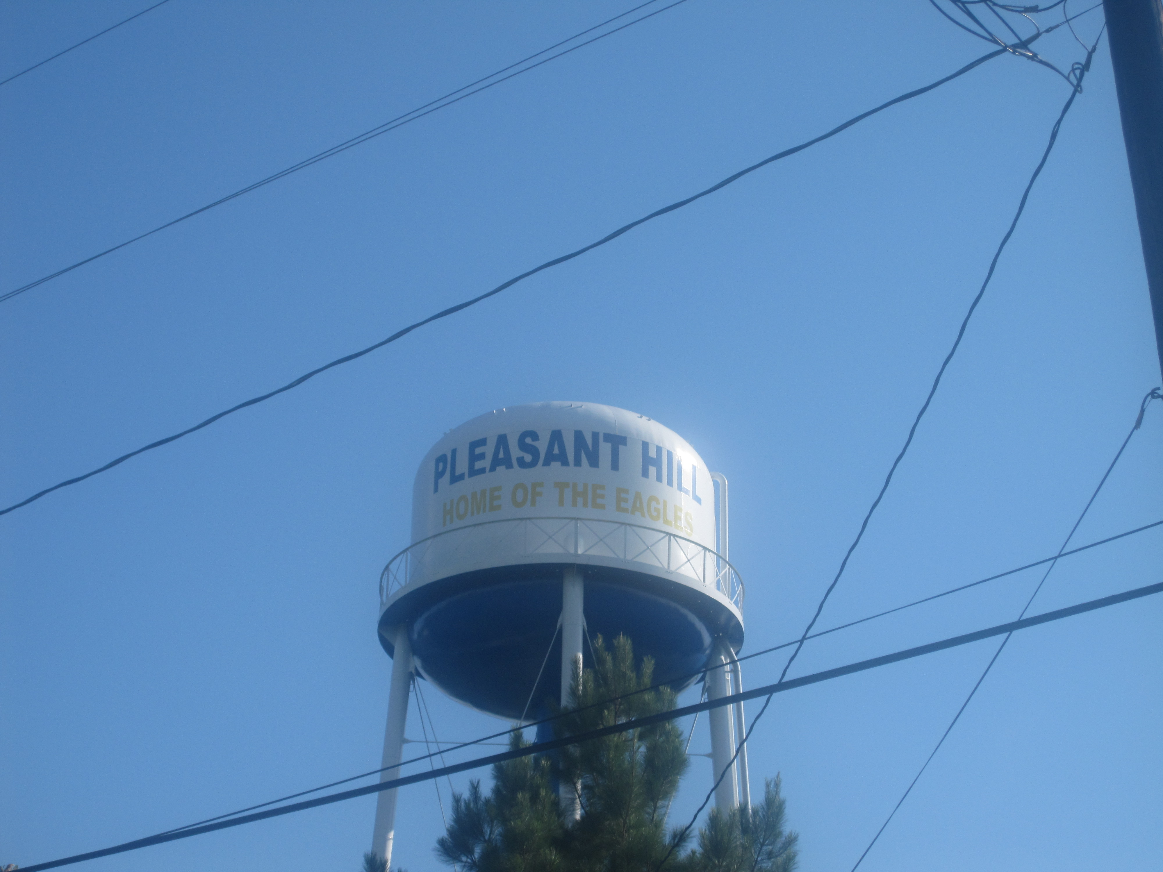 Water tower at Pleasant Hill, LA